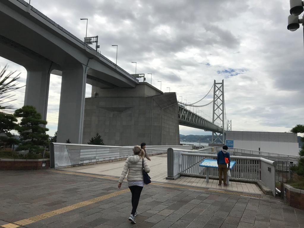 Akashi Kaikyō Bridge near the Japamese city of Kobe